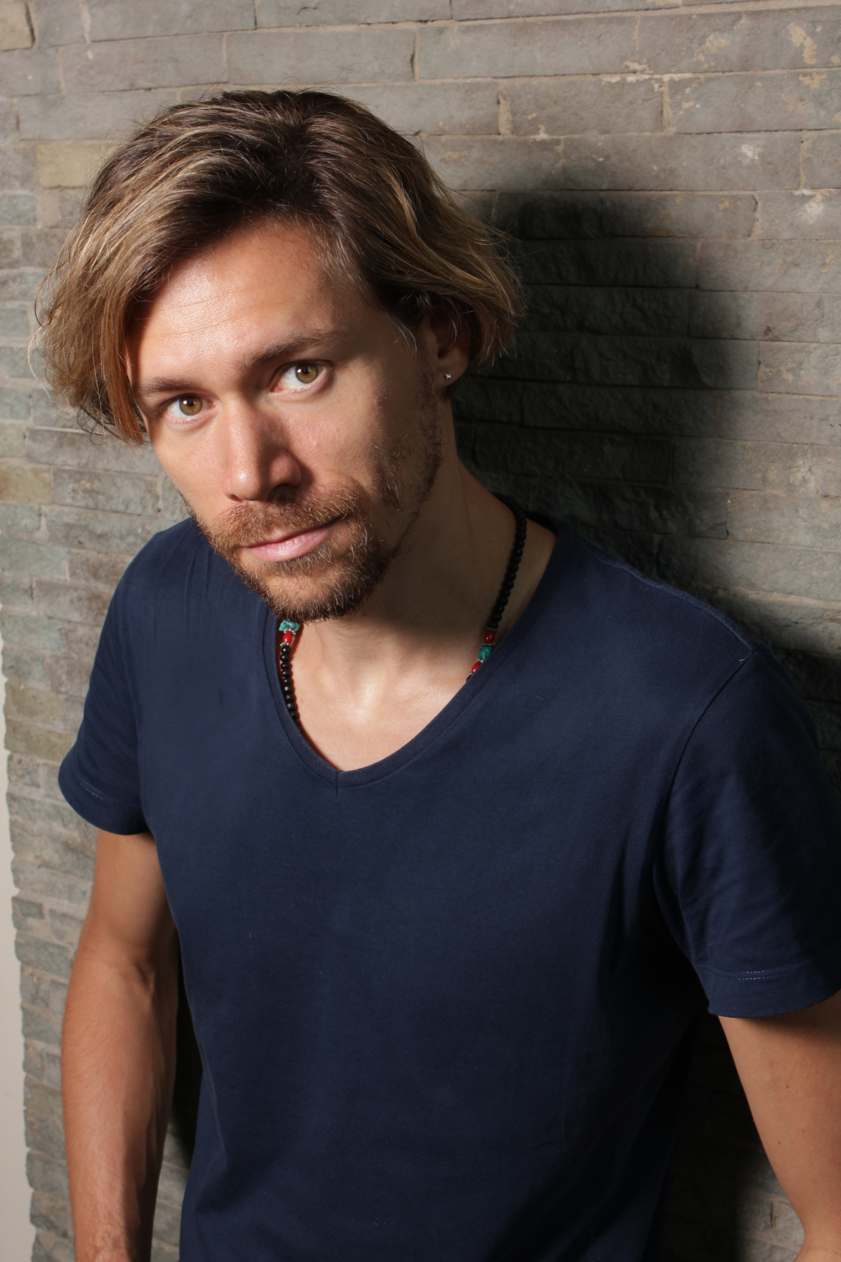 Giulio Alvise Caselli (2014)